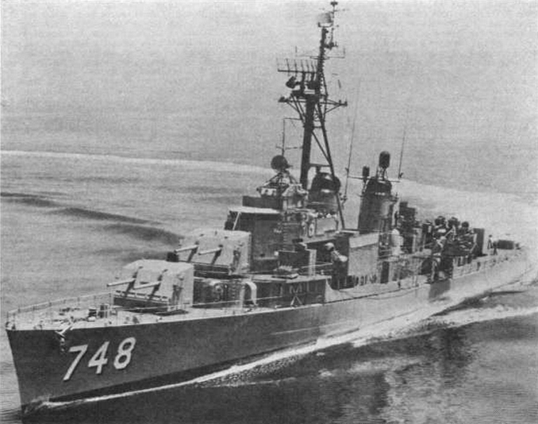 The U.S. Navy destroyer USS Harry E. Hubbard (DD-748) in 1966.